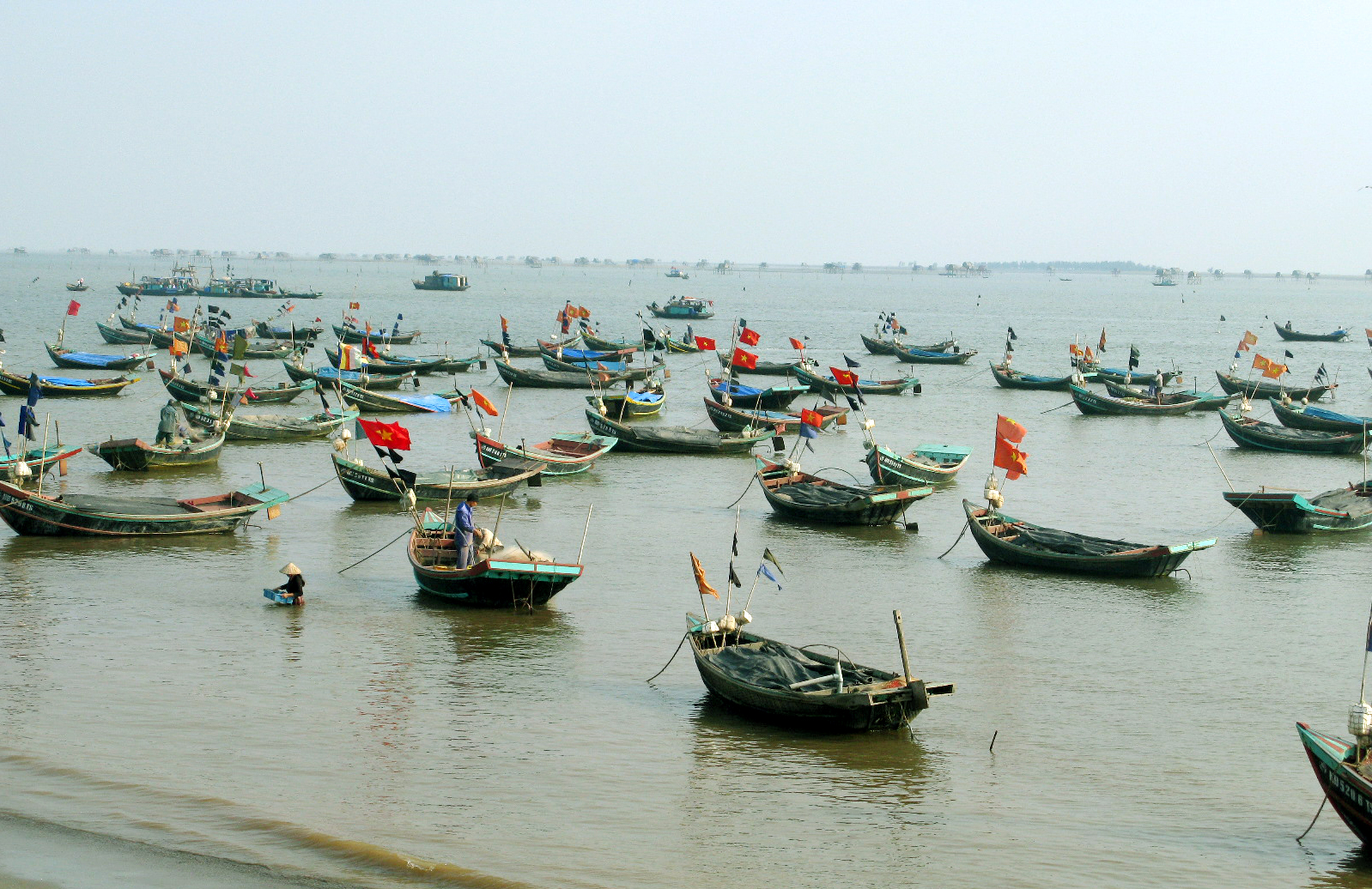 traditional fisherboats near the mouth of the red river